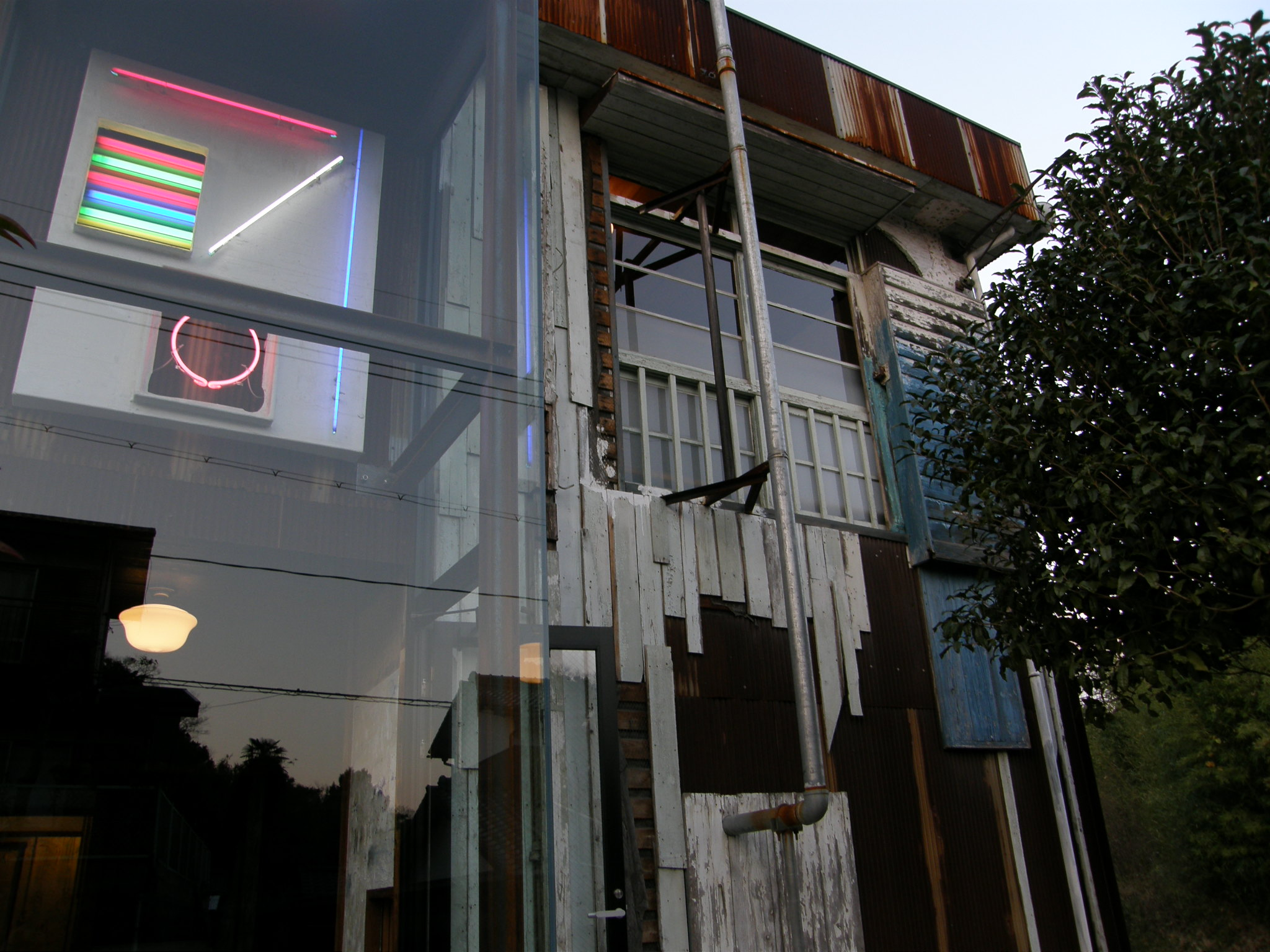 Art house project in Naoshima, Haisya(はいしゃ、直島 家プロジェクト)